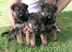 German shepherd dog puppies on age of 40 days